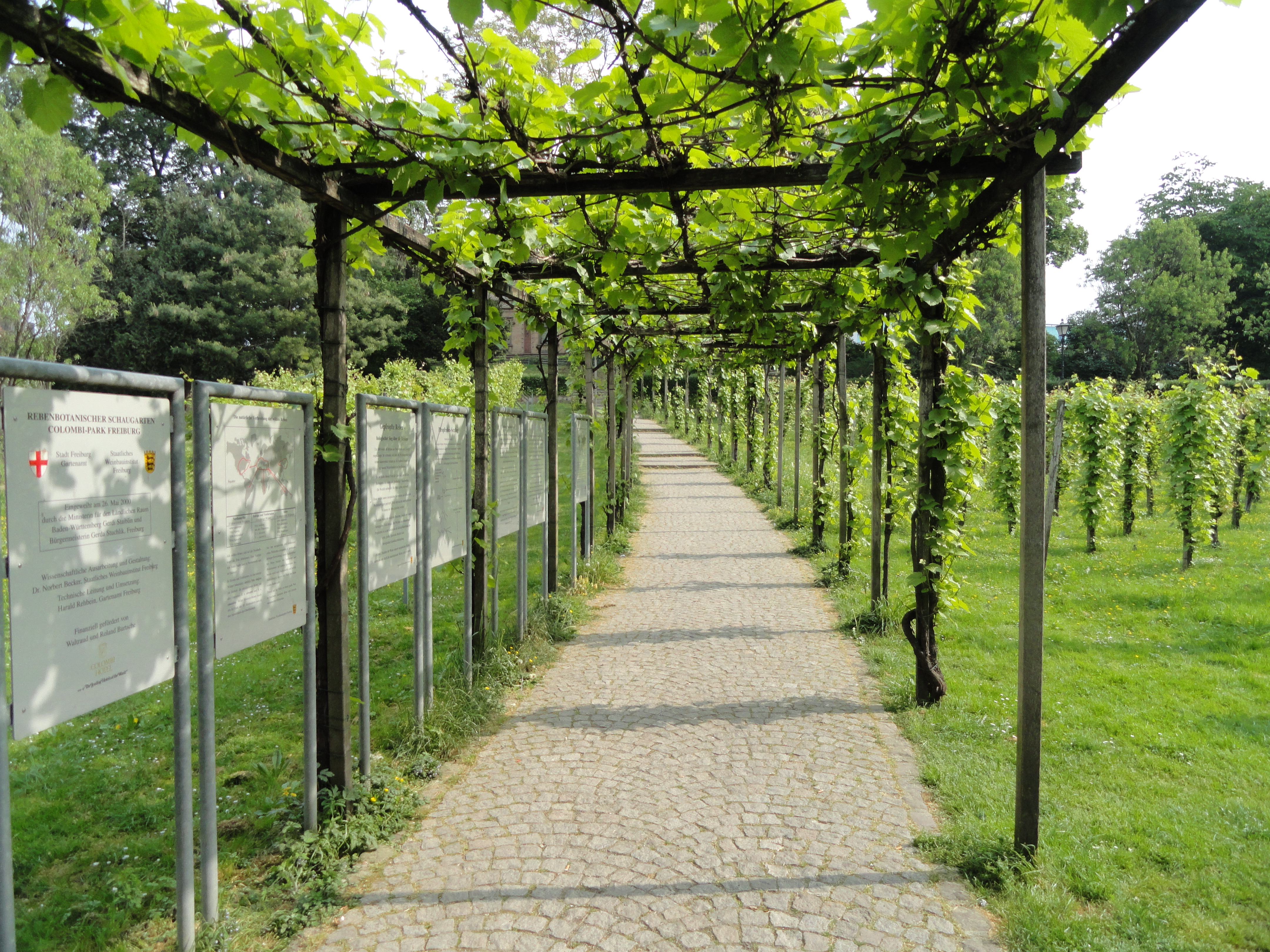 Colombipark, Freiburg im Breisgau, Baden-Württemberg, Germany.